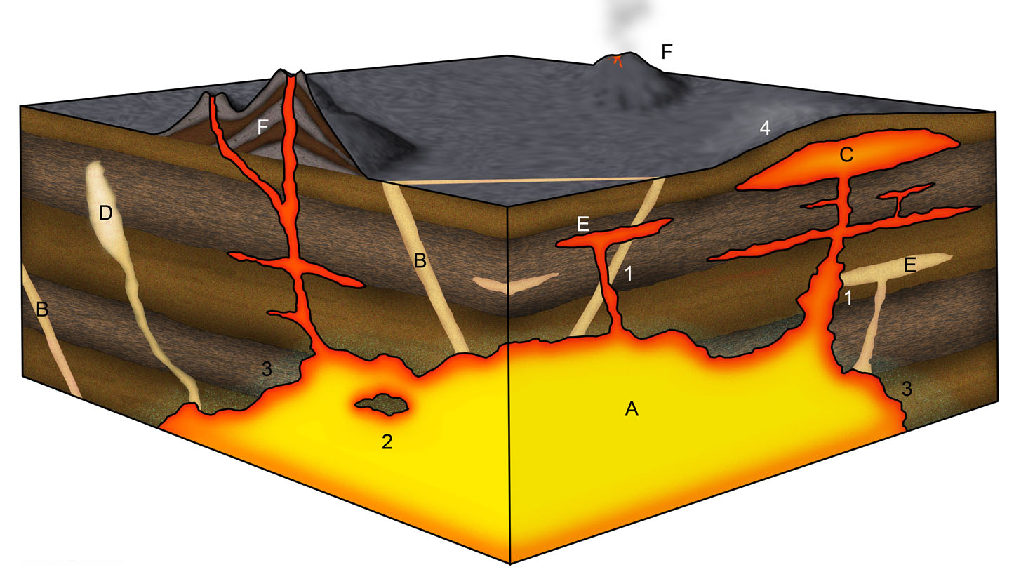 Schematic overview of plutonic, subvolcanic and volcanic structures/rock bodies and accompanied processes and phenomena. Structures: A = active magma chamber (called pluton when cooled and entirely crystallized; a batholith is a large rock body composed of several plutonic intrusions) B = old magmatic dykes/dikes C = emerging laccolith D = old pegmatite (late-magmatic dyke formed by aggressive and highly mobile residual melts of a magma chamber) E = old and emerging magmatic sills F = stratovolcano Accompanied processes and phenomena: 1 = young, emerging subvolcanic intrusion cutting through older one 2 = xenolith (solid rock of high melting temperature which has been transported within the magma from deep below) or roof pendant (fragment of the roof of the magma chamber that has detached from the roof and sunk into the melt) 3 = contact metamorphism in the country rock adjacent to the magma chamber (caused by the heat of the magma) 4 = uplift at the surface due to laccolith emplacement in the near subground.